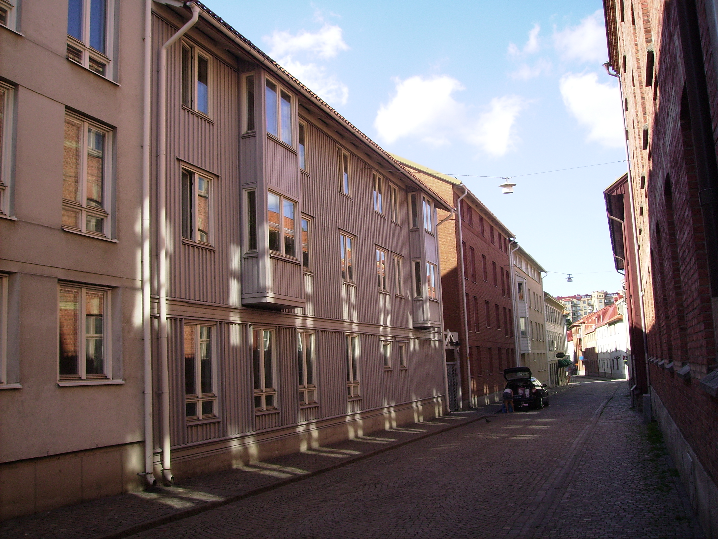 Picture of Skolgatan 15 in Gothenburg